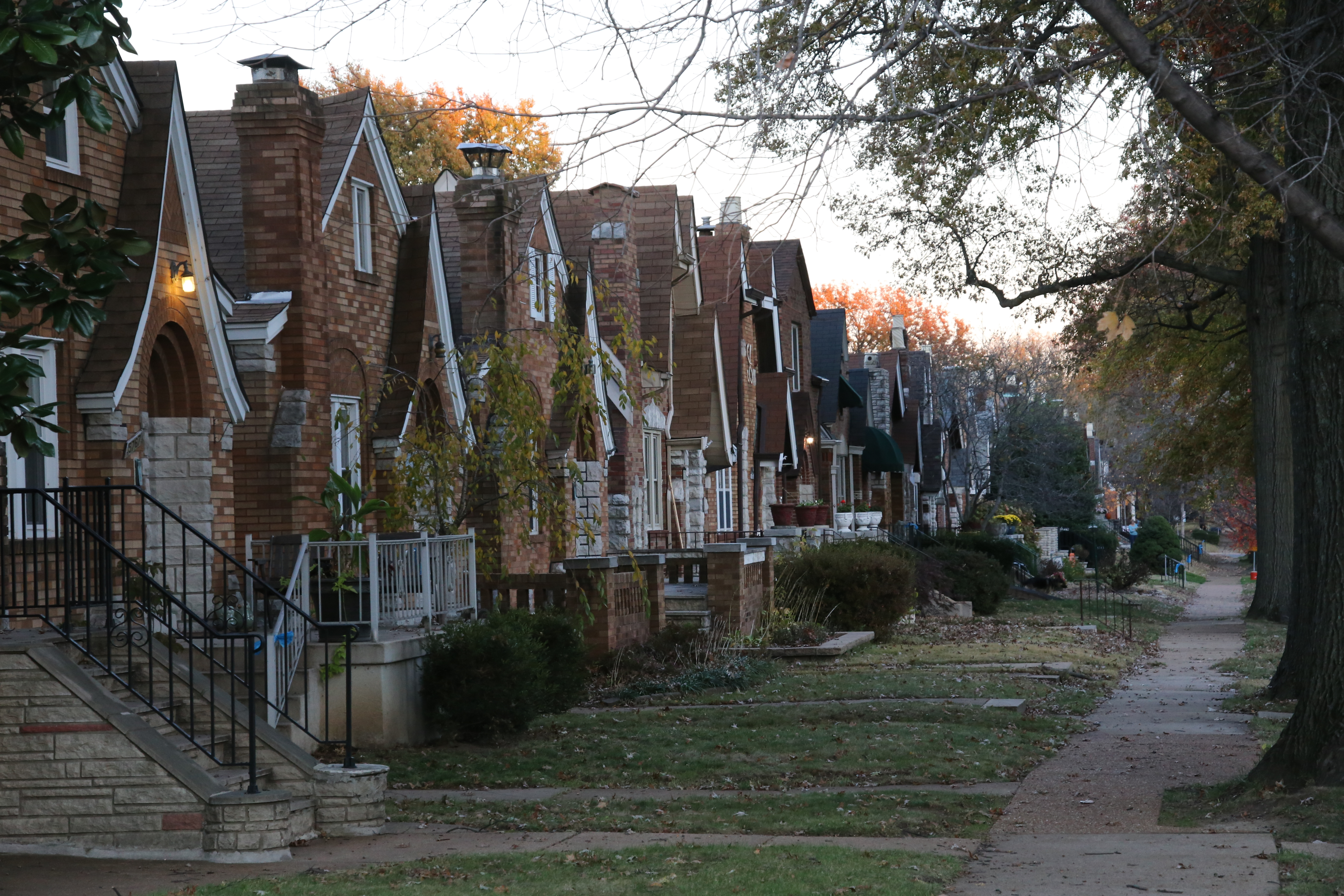 Southampton Homes